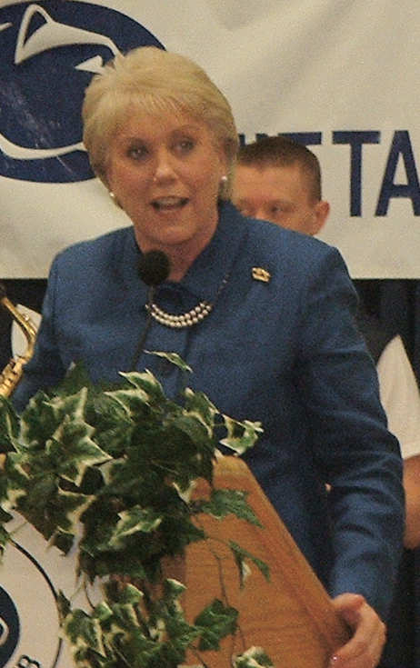 Head coach Rene Portland addressing a pep rally audience just before a Lady Lions home basketball game at the Bryce Jordan Center. The Lady Lions lost the game against University of Illinois 68-50 creating a thirteen game losing streak. Color-corrected photo.